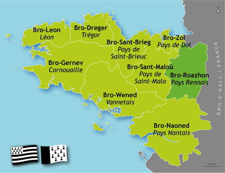 Position's map of Rennes Country (Brittany)